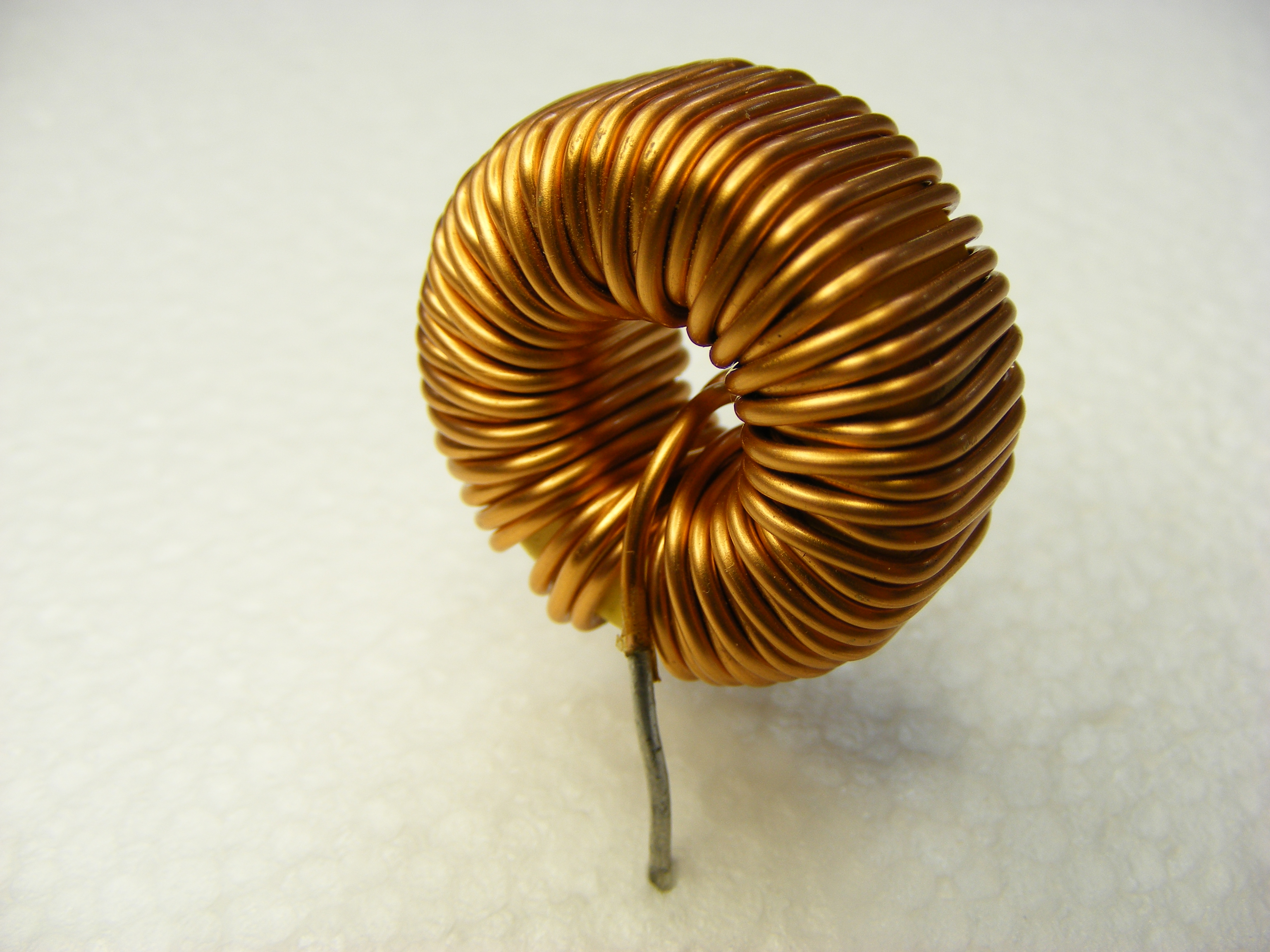 Inductor wound on a toroidal ferrite core.